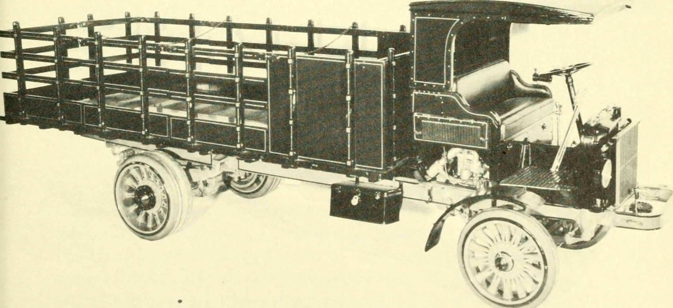 Title: Bulletin - United States National Museum Year: 1877 (1870s) Authors: United States National Museum; Smithsonian Institution; United States. Dept. of the Interior Subjects: Science Publisher: Washington : Smithsonian Institution Press, (etc. ); for sale by the Supt. of Docs. , U. S. Govt Print. Off. Text Appearing Before Image: AUTOCAR GASOLINE TRUCKS, 1921 Gift of the Autocar Co. in 1 922 (USNM 307255 and 307256) These one-quarter-size models represent the type XXVI-B (fig. 99) and XXVI-Y (fig. 100) Autocar trucks of 1921. Except for the wheelbase and the type of body, the two types are identical. The former has a 156-inch wheelbase and a unit construction rack body, while the lat- ter has a 120-inch wheelbase and a rotary dump body with power hoist. The wheels of the larger model and the dumping action of the dump body truck were originally operated by con- cealed electric motors. Otherwise the models are inopera- tive. The frame of the full-sized vehicle is made of pressed steel of channel section and is fitted with cross members and braces. All four springs are of the semielliptic type. The tread is 63 inches. The front axle is drop-forged steel of I-beam section. The front wheels are mounted on adjust- able, tapered, roller bearings. The front tires, of solid rubber, are 34 by 5 inches. Text Appearing After Image: Figure 99. — Model of 1921 Autocar truck, type XXVI-B. This quarter-scale model represents a vehicle with a 156-inch wheelbase. 141